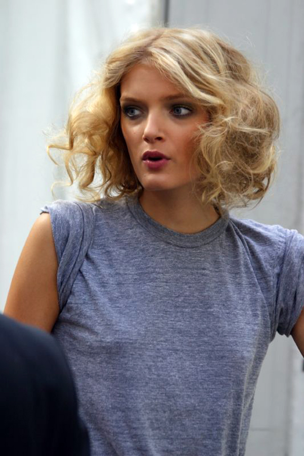 Supermodel Lily Donaldson departs the Bryant Park tent during Mercedes-Benz Fashion Week in New York City.